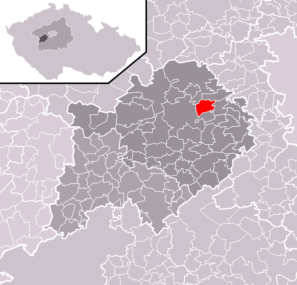 Location of Vráž municipality within Beroun District and administrative area of Beroun as a Municipality with Extended Competence.